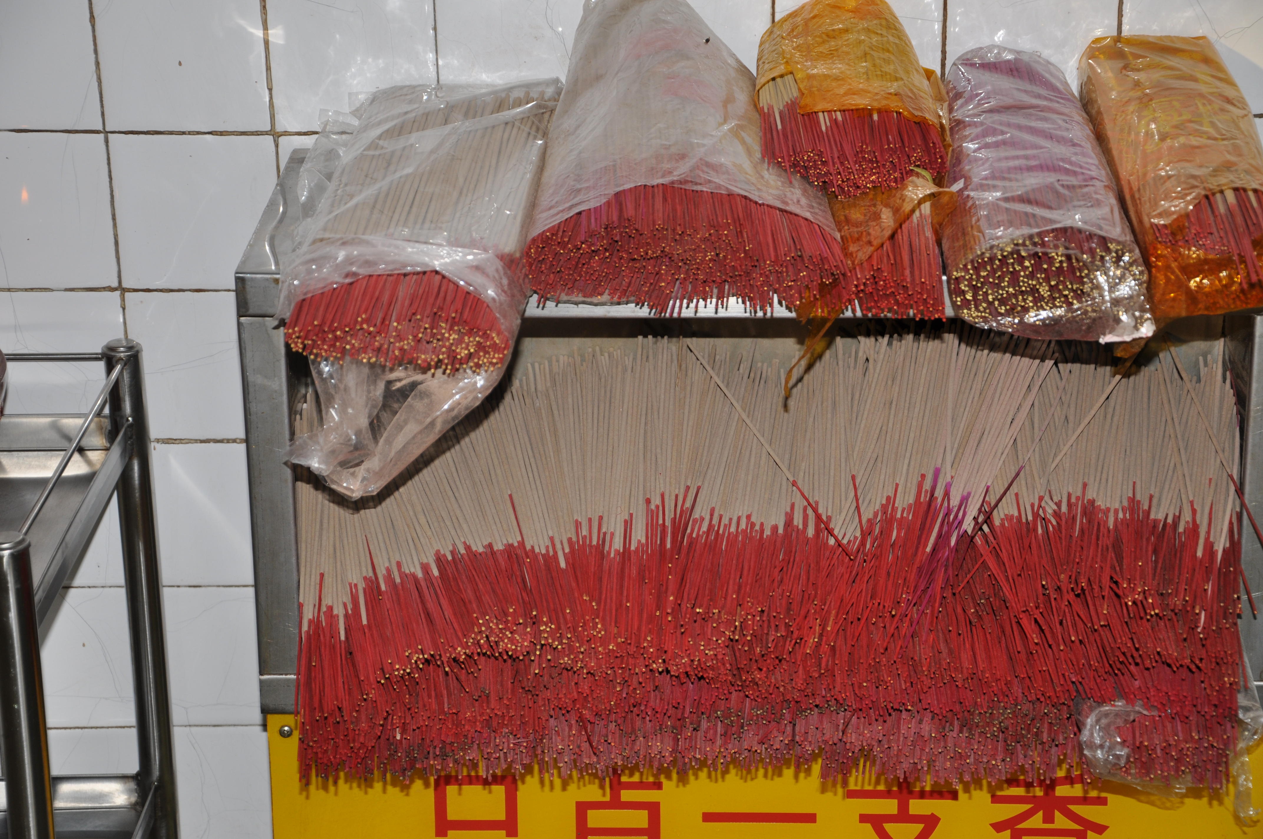 Incense sticks in Taoist/Buddhist shrine in Kota Kinabalu